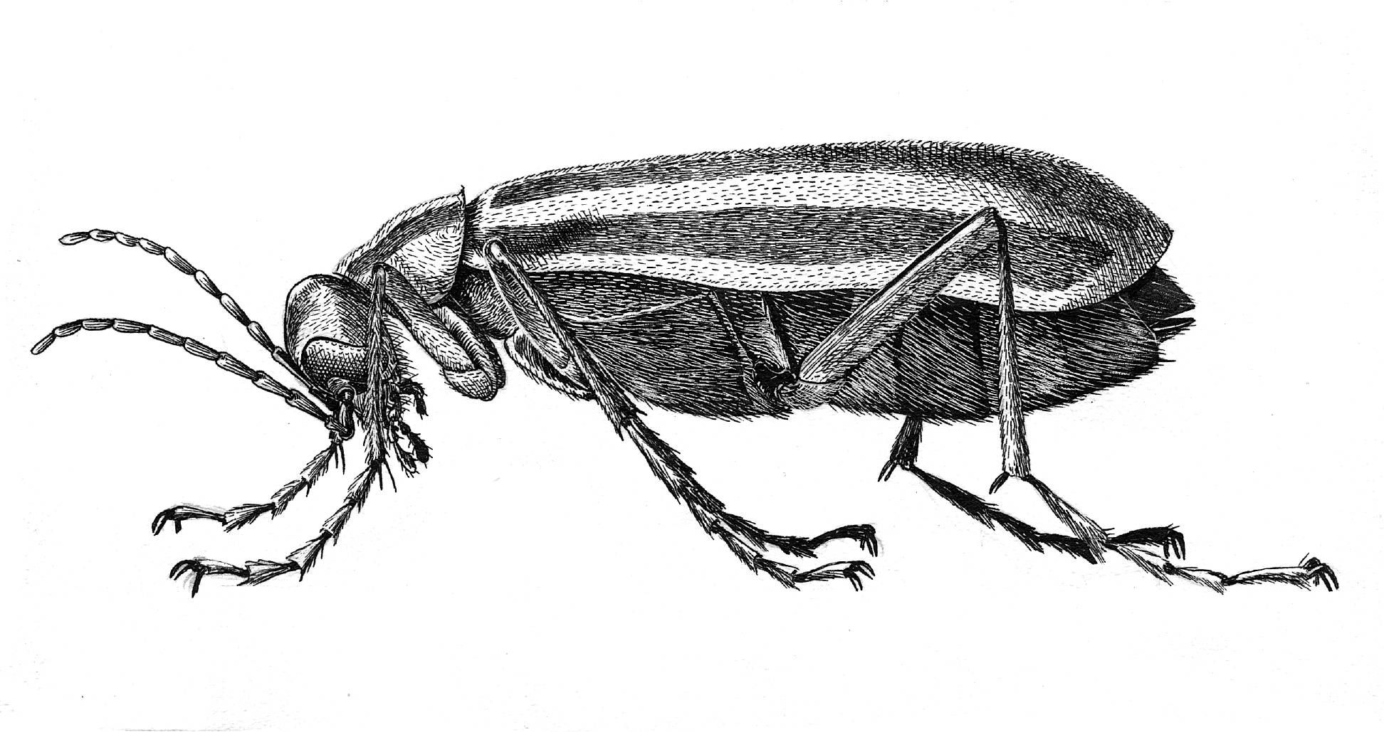 Epicauta vittata (Coleoptera) illustation.